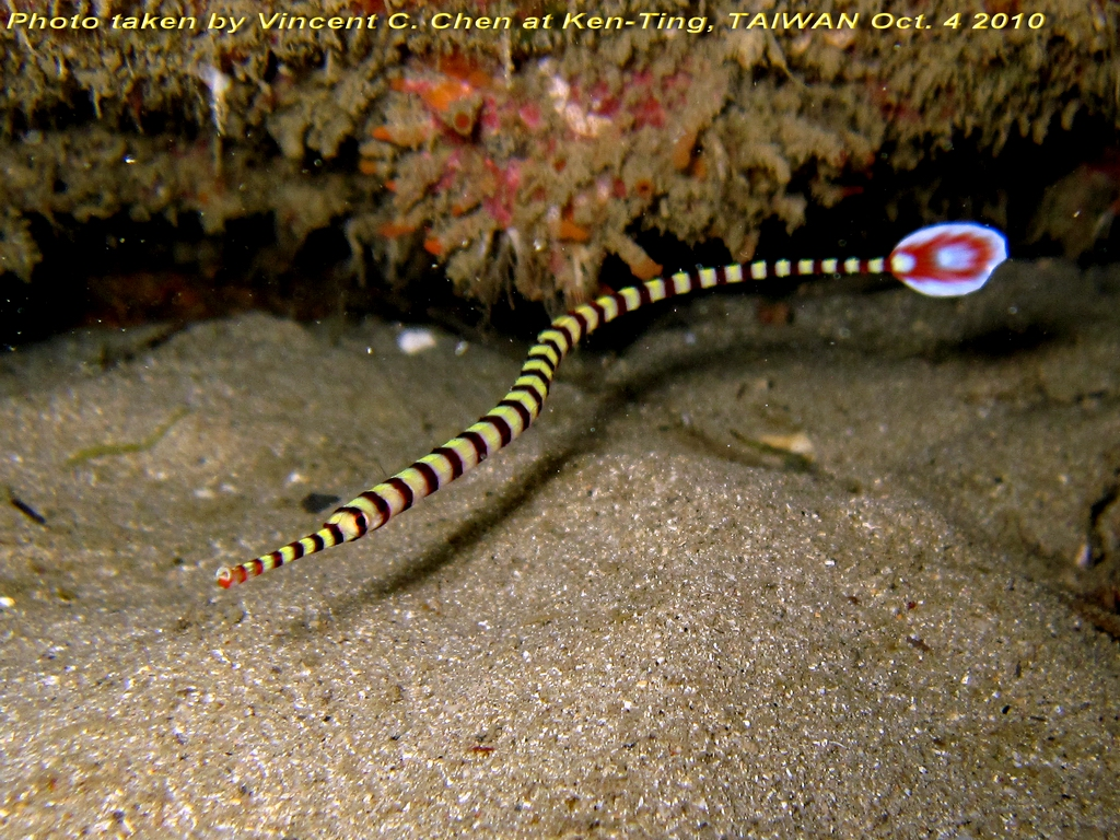 This photo was taken by Vincent C.Chen, one of the regular contributors to EZDive magazine, at Ken-Ting, Taiwan